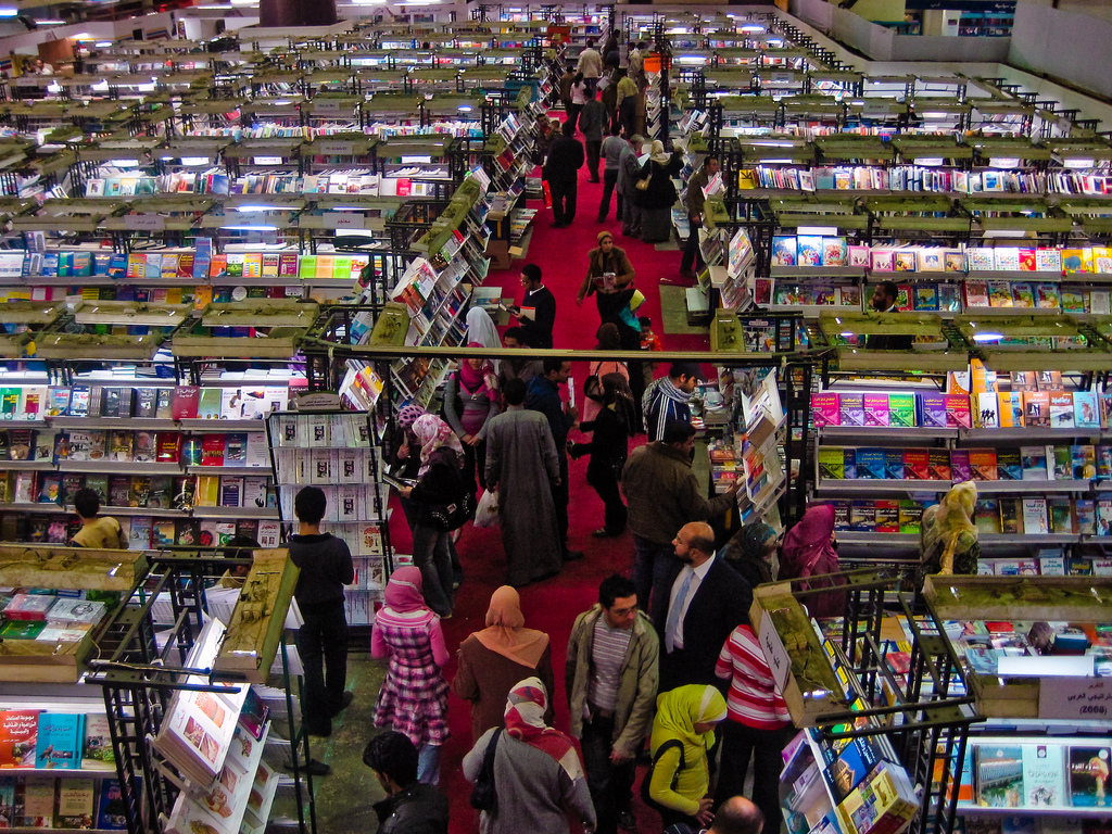 Crowds among the books on display at the 41st Cairo International Book Fair, February 2009.